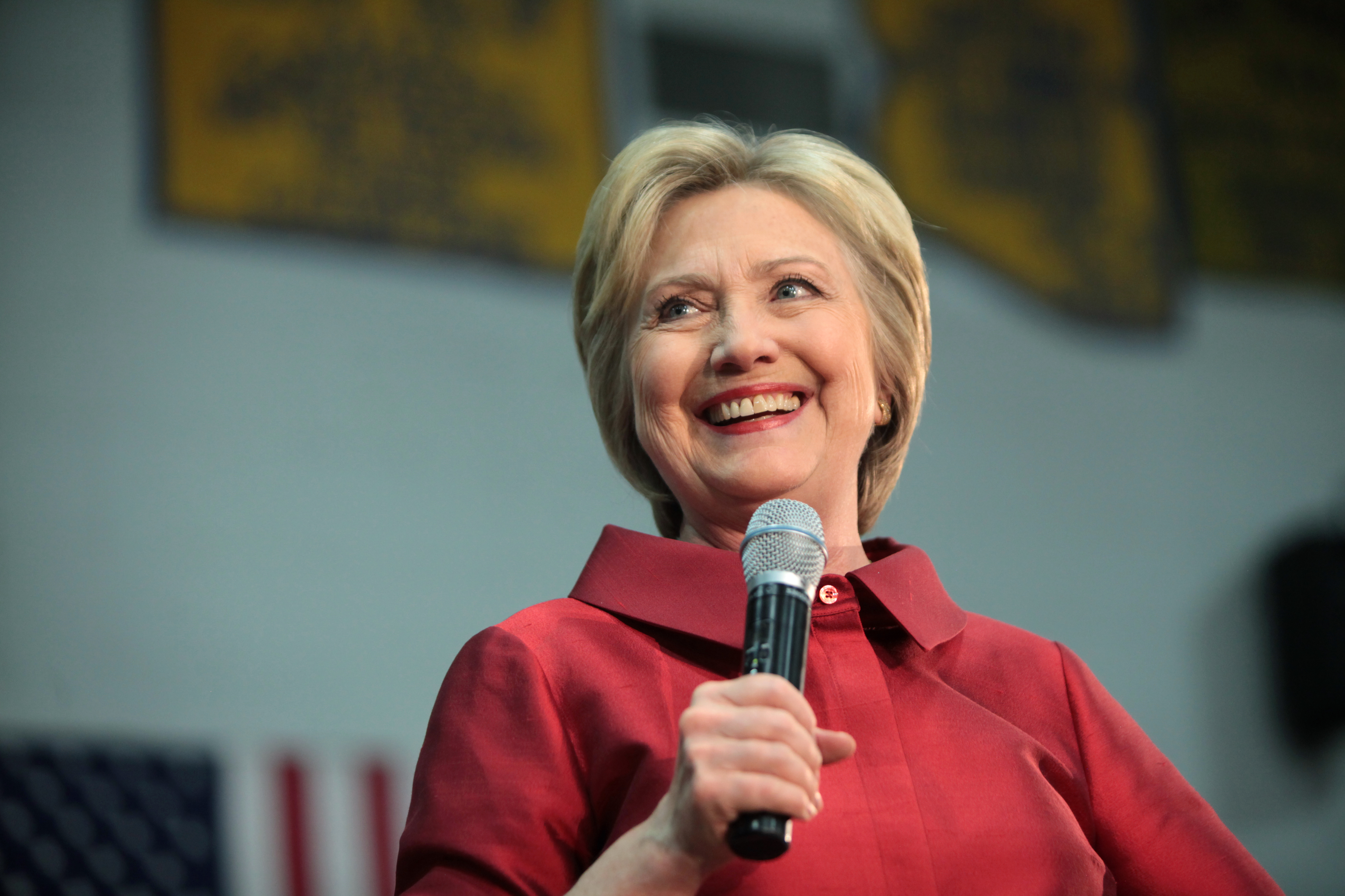 Hillary Clinton speaking with supporters at a campaign rally at Carl Hayden High School in Phoenix, Arizona